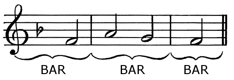 Line art drawing of bars of music.